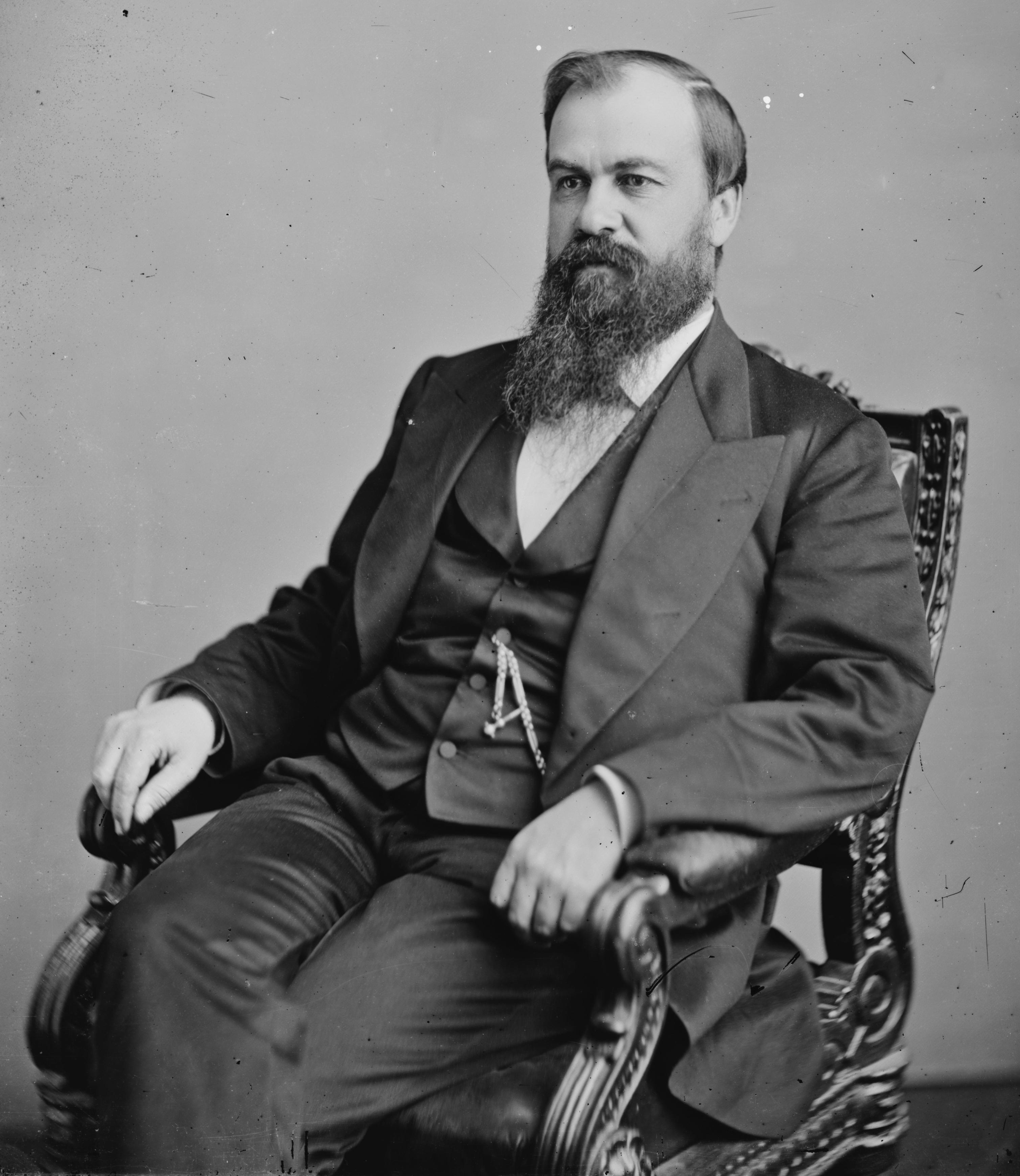 John Alexander Magee. Library of Congress description: "Hon. John Alexander Magee of PA."